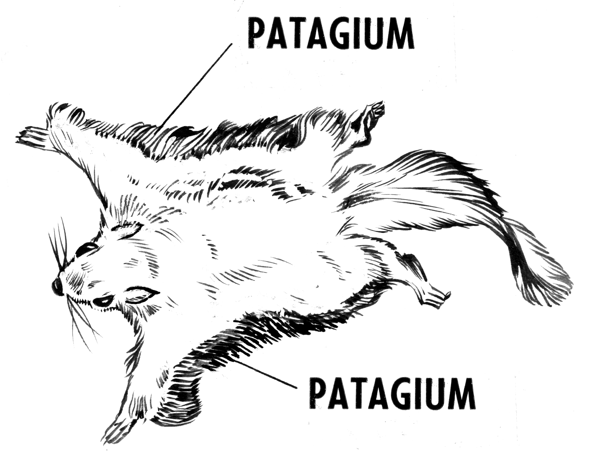 Flying squirrel, showing the patagia stretched out for gliding.